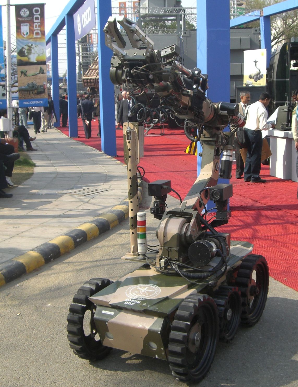 Daksh is an electrically powered and remotely controlled robot used for locating, handling and destroying hazardous objects safely. [1]Daksh speaks for the ingenuity of the R&DE(E). It is a battery-operated robot on wheels and its primary role is to recover improvised explosive devices (IEDs). It locates IEDs with an X-ray machine, picks them up with a gripper-arm and defuses them with a jet of water. It has a shotgun, which can break open locked doors, and it can scan cars for explosives. Daksh can also climb staircases, negotiate steep slopes, navigate narrow corridors and tow vehicles.